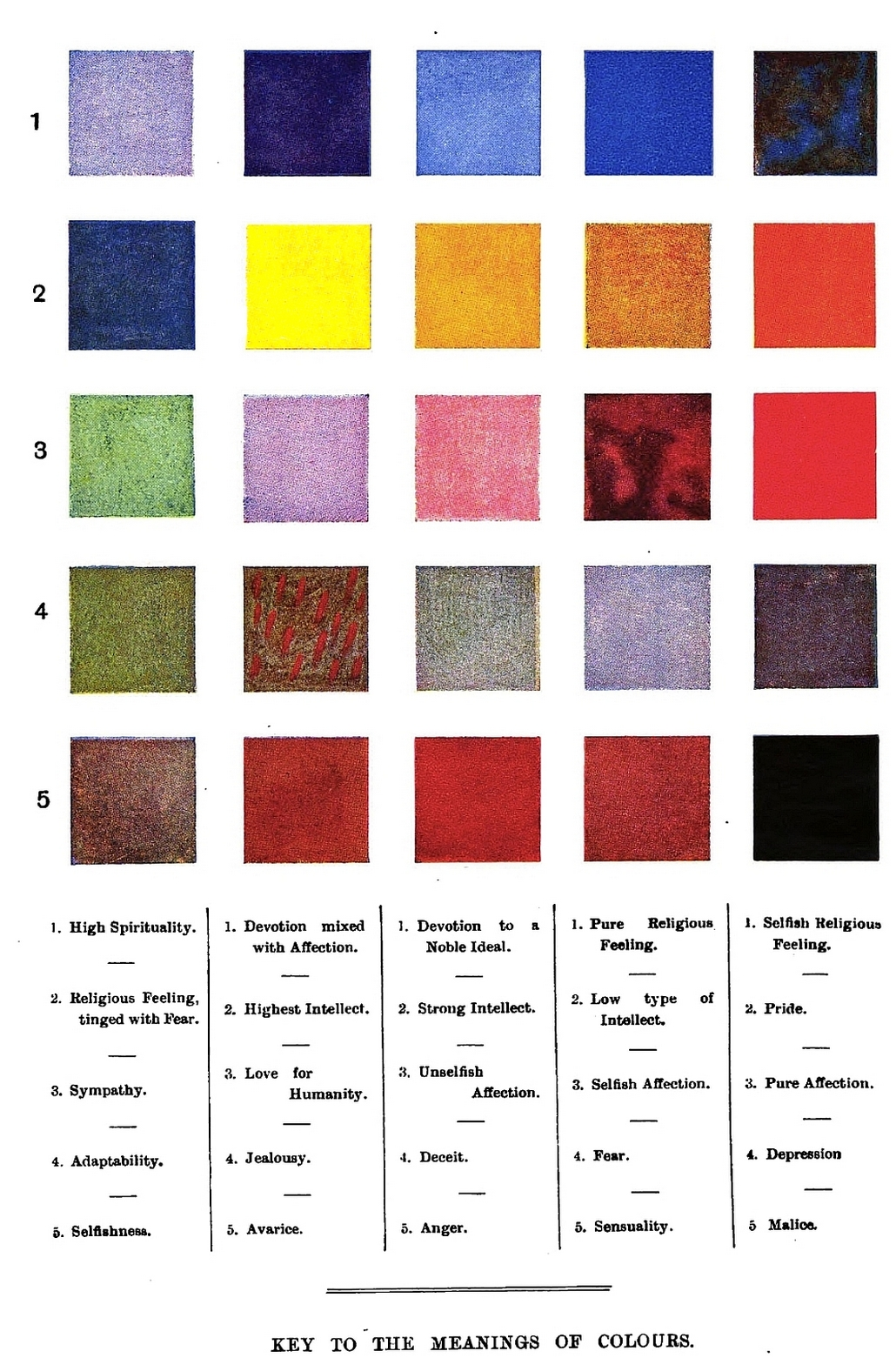 The meanings of colours from Thought-Forms, by Annie Besant & C.W. Leadbeater.